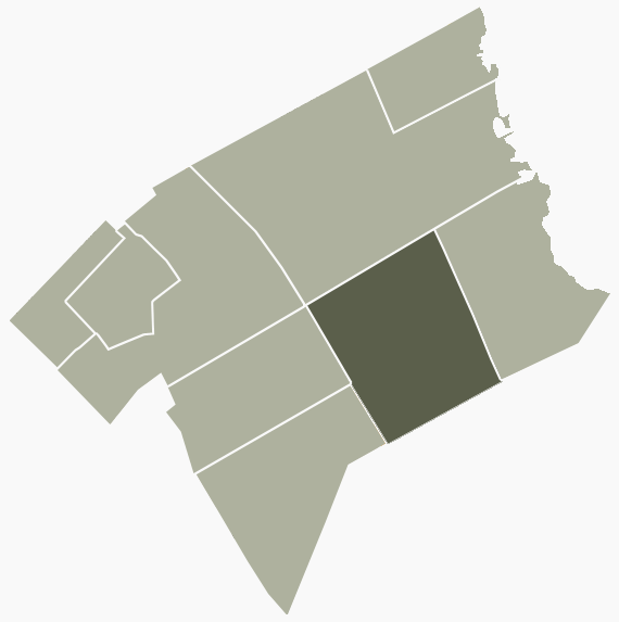 Map of the Vicente López's neighborhood, Florida Este.